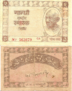 Lowered-Resolution scan of a non-copyrighted fund receipt of the initial funding of the Gandhi Smarak Nidhi. The front says "Gandhi Smarak Nidhi" in Hindi and the reverse says "Gandhi Qaumi Yadgar Fund" in Urdu.